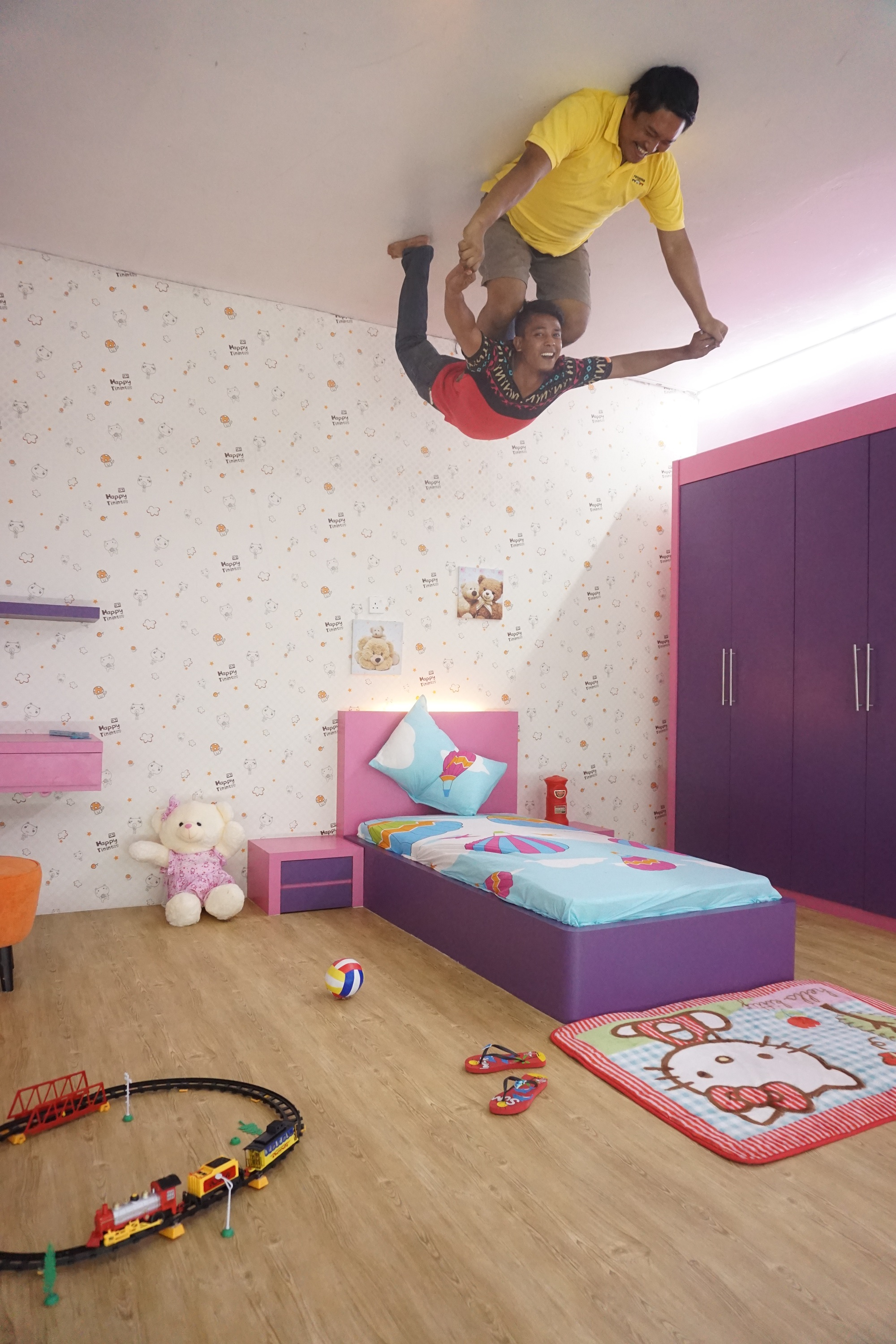 A funny picture taken in Upside Down House Melaka.